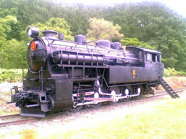 Steam locomotive No2 of Bibai Railway, second hand of JNR type 4110 at Hokkaido.